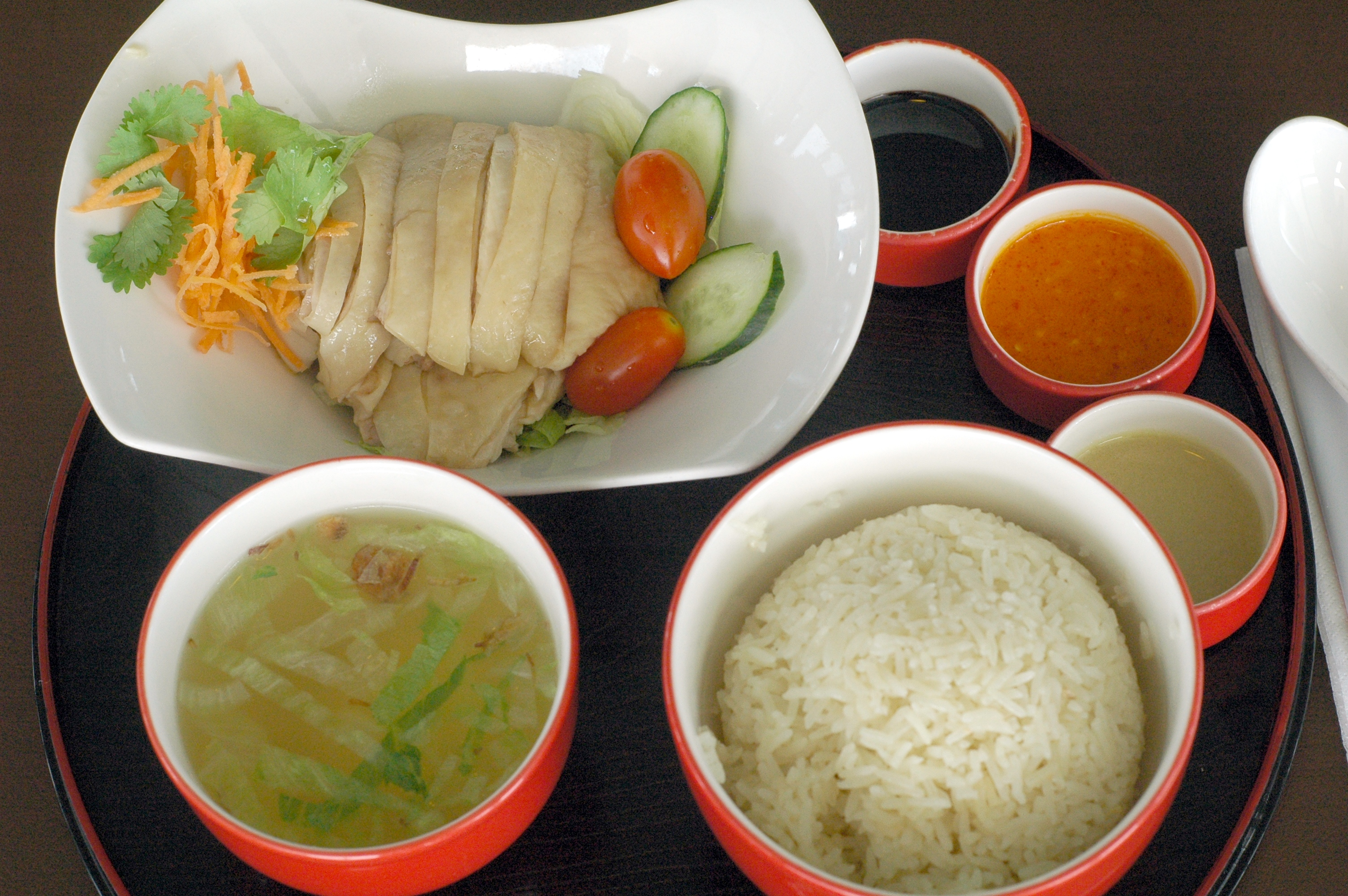 Hainanese chicken rice at Chatterbox, Meritus Mandarin Hotel, Singapore. At S$30 with tax and service, this is probably the most expensive chicken rice in the country!